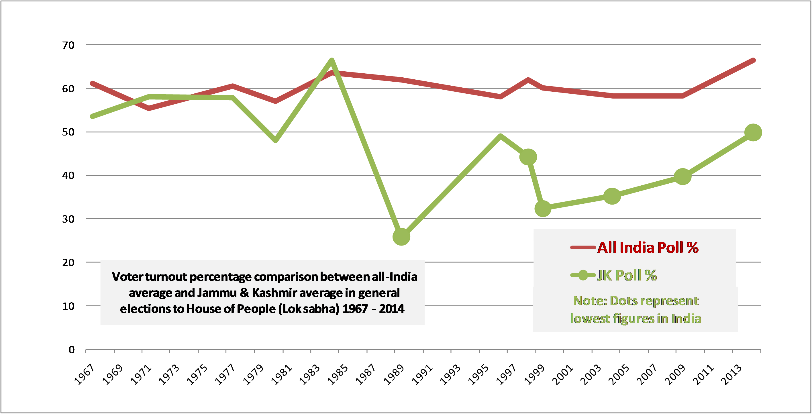 This chart shows a comparison between voter turnout trends for the elections to the Lok Sabha (House of People) of India between 1967 and 2014 for Jammu and Kashmir and India. Jammu and Kashmir had the lowest voter turnout in six of the twelve elections represented on the chart for General Elections to the 4th to 16th Lok Sabha. Notes: Elections were not held in Jammu and Kashmir in 1990 and this has not been included in the figure. Green dots represent lowest voter turnout percentage in India. Poll percentage and voter turnout percentage are used interchangeably. Sources - Statistical Reports on General Elections to the 4th to 16th Lok Sabha, Election Commission of India website ( and Open Government Data Platform India ( .in) released under the Government Open Data License - India National Data Sharing and Accessibility Policy (NDSAP) by the Ministry of Statistics and Programme Implementation and the Election Commission of India. License URL